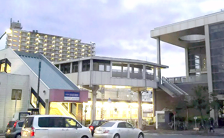 Keisei Sakura Sta. north side